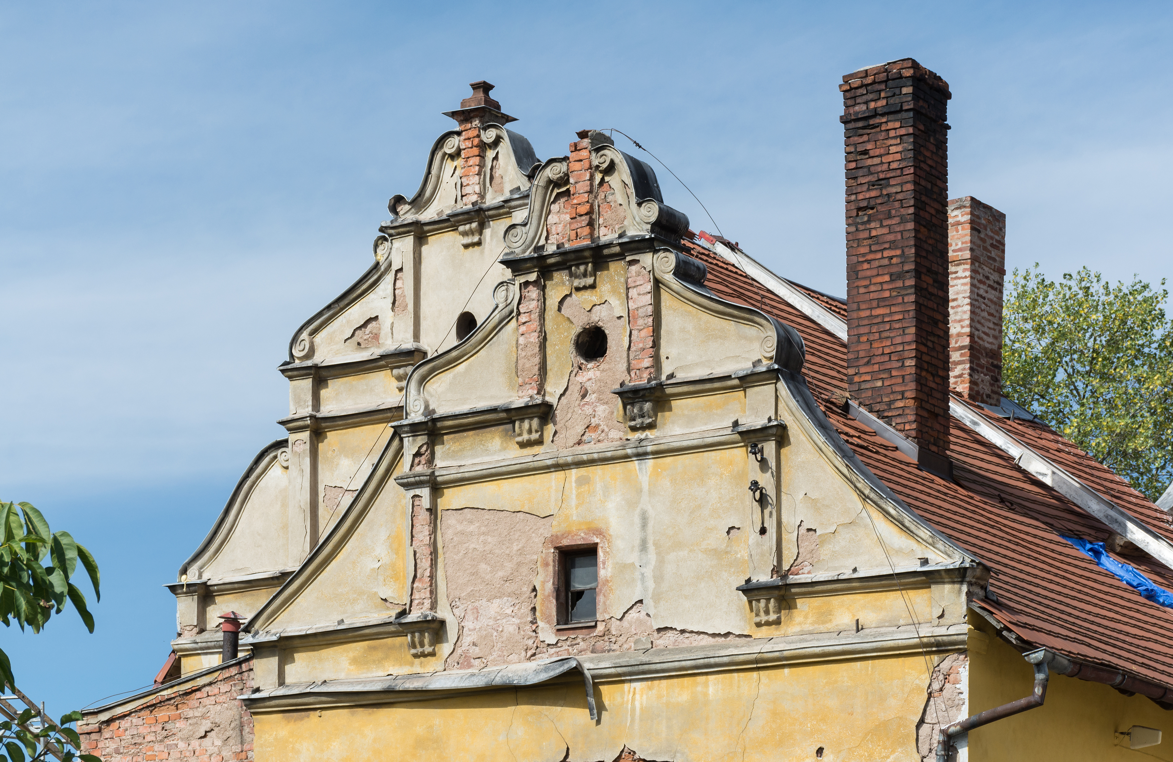 Ścinawka Średnia Castle